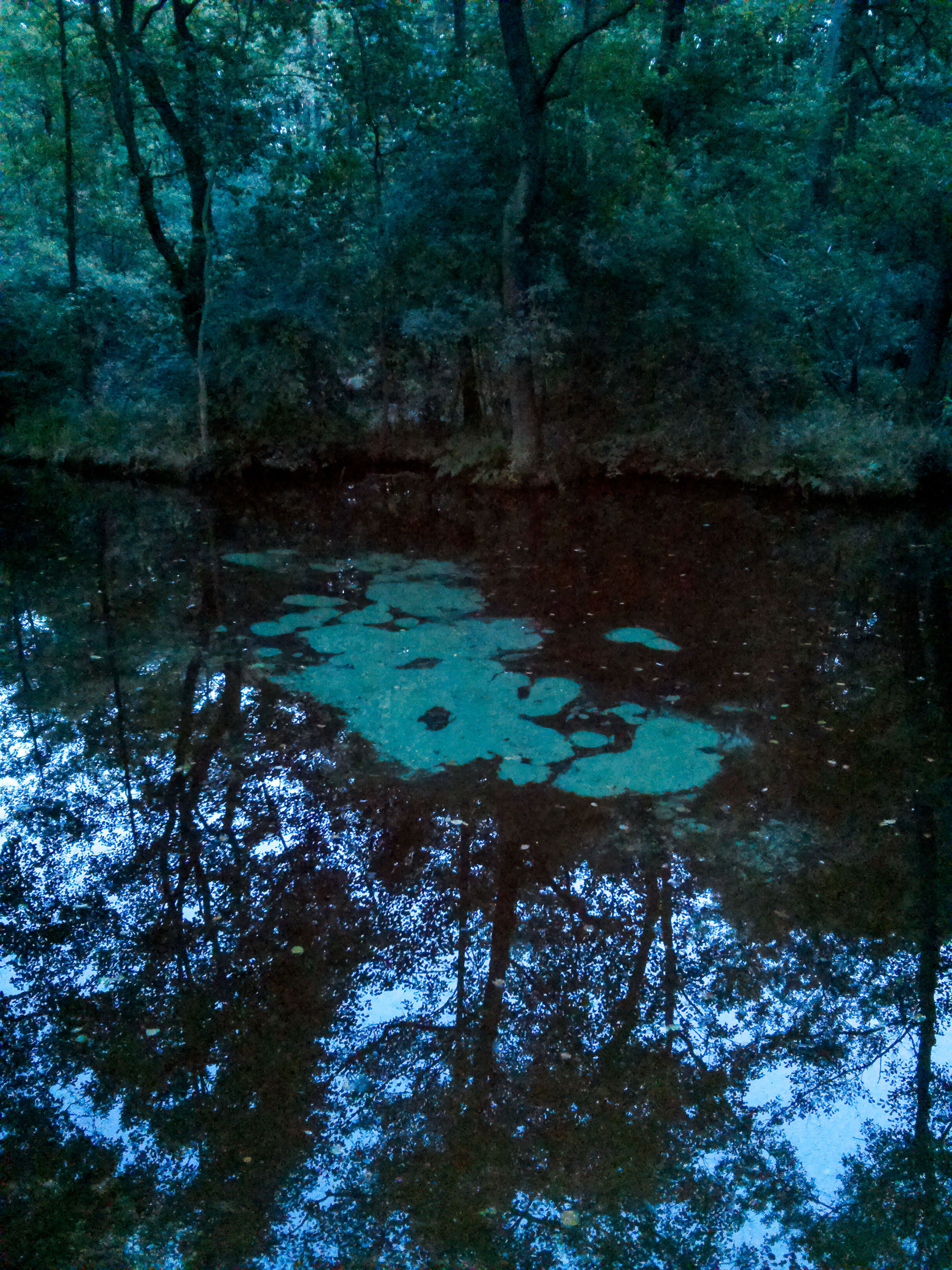 A picture of the most famous part of the nature reserve. The strange shape in the middle is sand at the bottom of a woodland lake. The sand ripples due to water flow entering through it from a sinkhole.